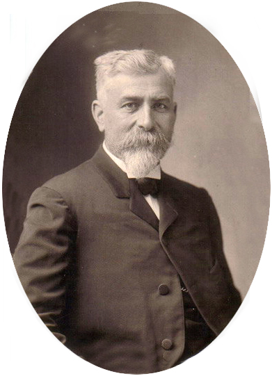 Julien Dupré. Photography from the last years of life